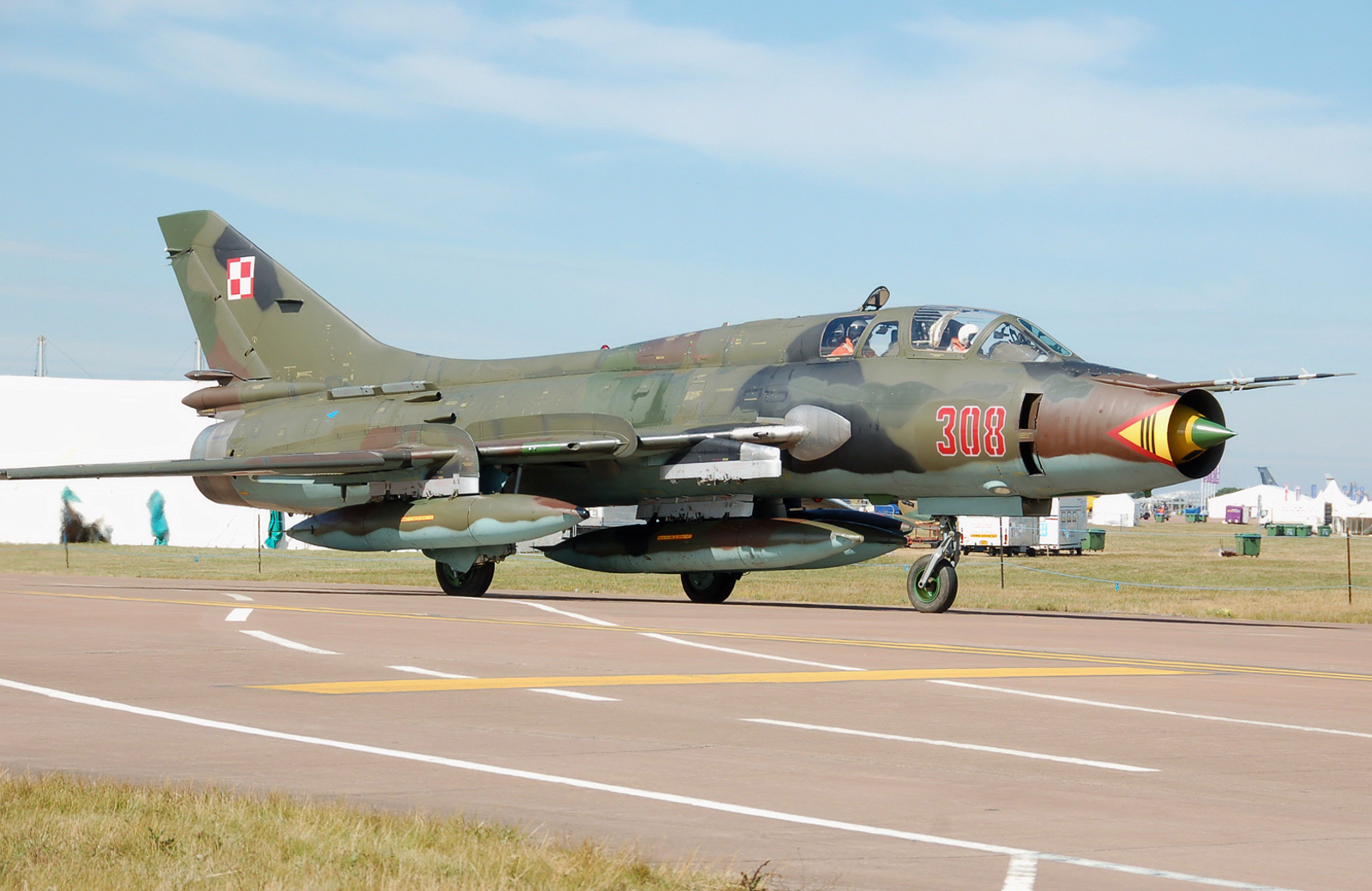 Sukhoi Su-22UM-3K Fitter of the Polish Air Force (nose code 308) taxis for take off at the 2010 Royal International Air Tattoo, RAF Fairford, Gloucestershire, England.